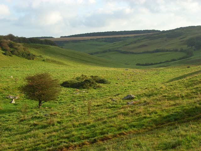 The Valley of Stones The downland is named after the sarsen stones that are scattered across the valley. It is part of the Bridehead estate but is a nature reserve managed by Natural England. Sheep graze in the bottom field (pictured). The higher slopes are populated by English longhorn cattle. Their beef is for sale in Abbotsbury.